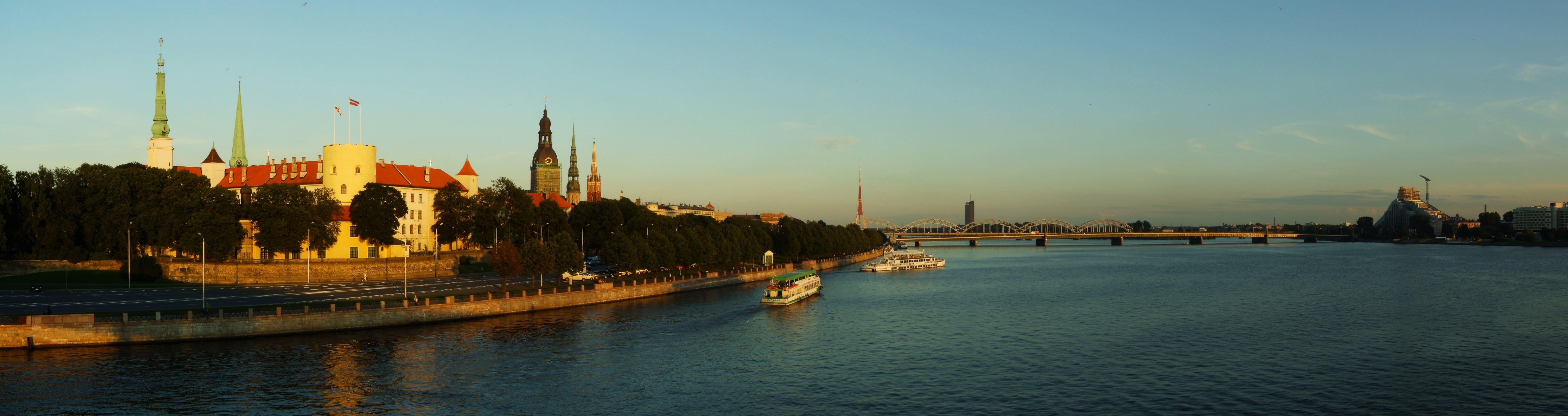 Panaroma of Riga and Daugava